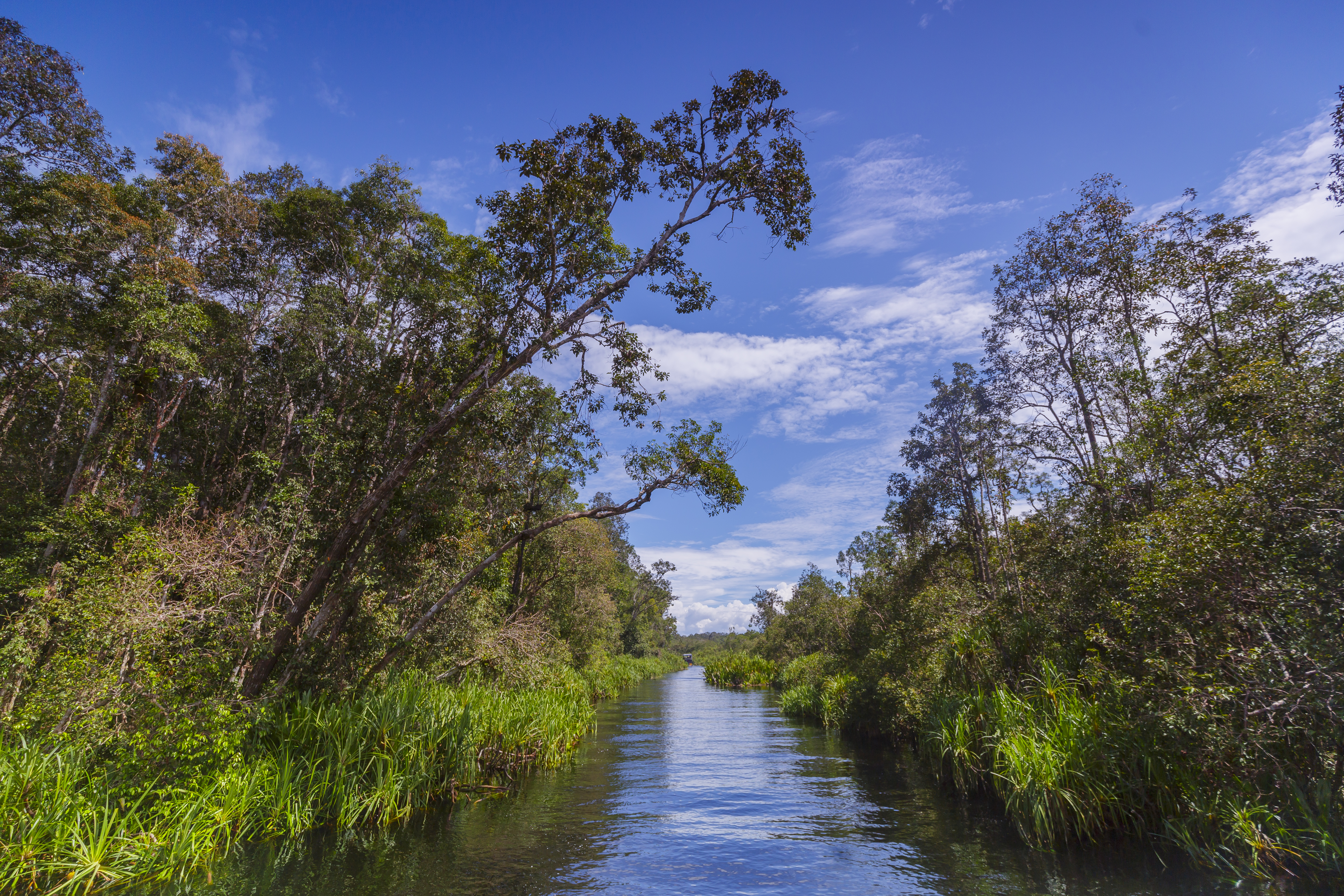 Tanjung Puting National Park - taken during a photo trip to Indonesia in 2018 - taken by Thomas Fuhrmann, SnowmanStudios - see more pictures on / mehr Aufnahmen auf